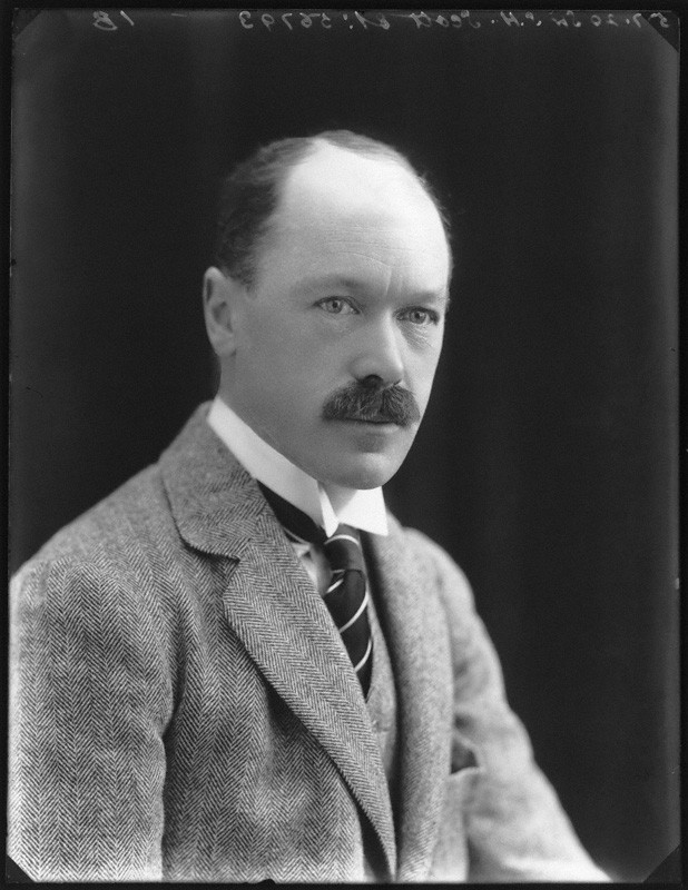 photograph of Sir Samuel Haslam Scott taken at Bassano's studios